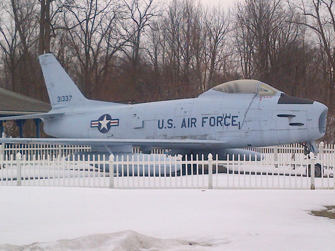 picture